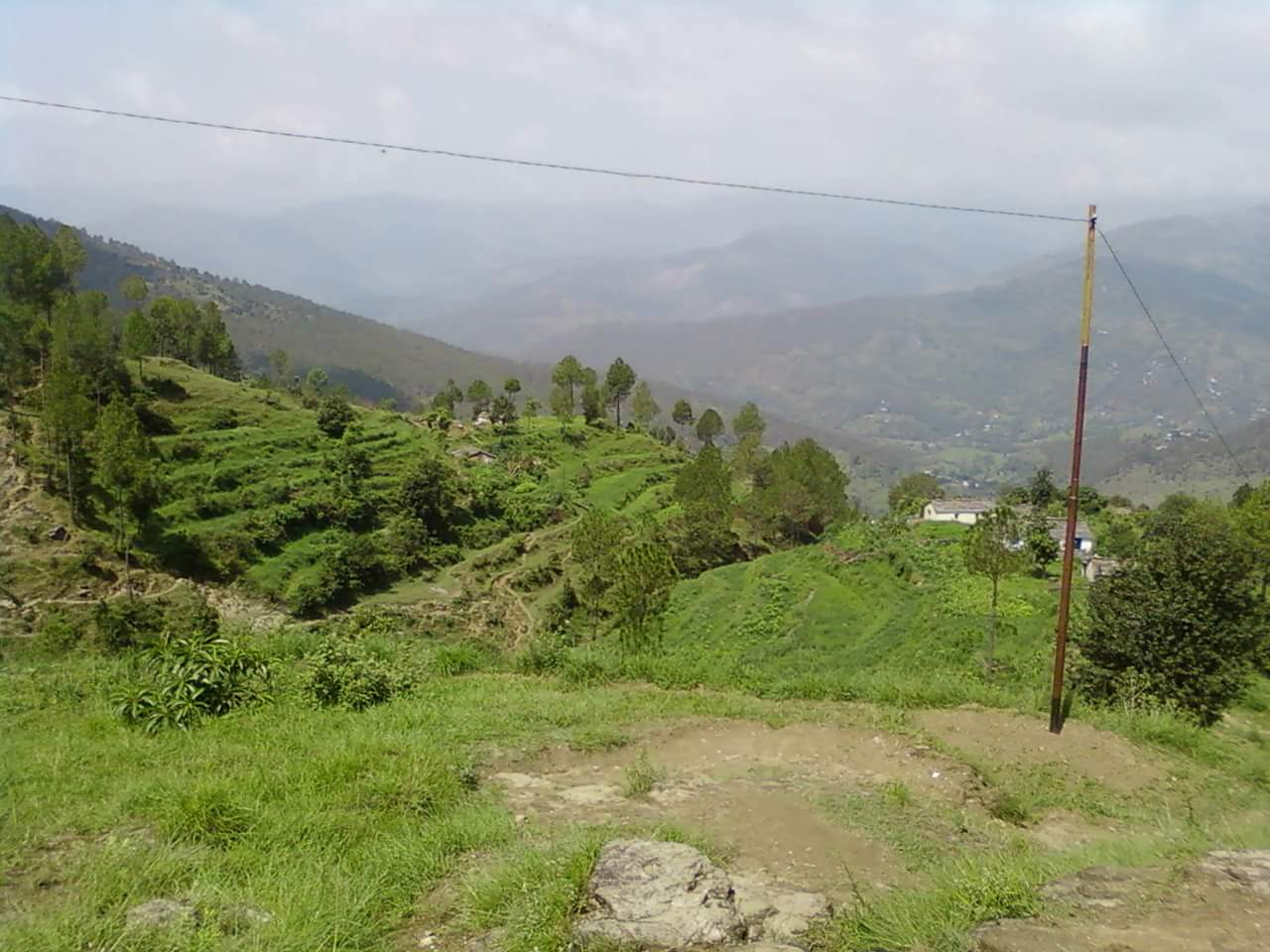 Gwalbina Village